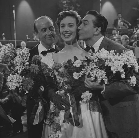 Conductor Franck Pourcel, host Hannie Lips and winning singer André Claveau after the 1958 Eurovision Song Contest in Hilversum